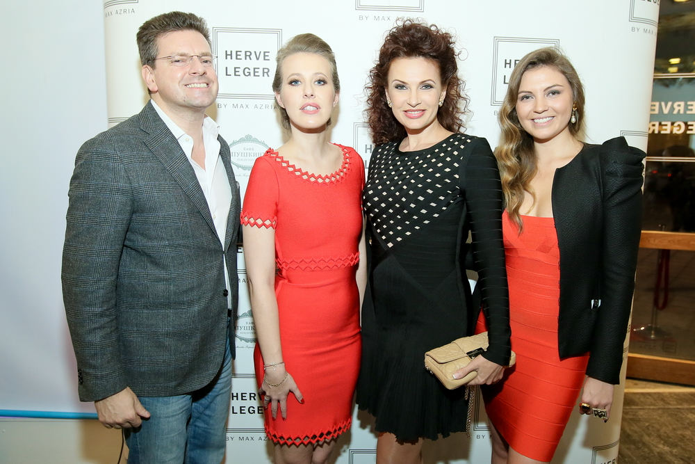 The opening of the Hervé Léger boutique in Moscow on 21 March 2013. From left to right: Konstantin Andrikopulos, Ksenia Sobchak, Evelina Bledans, Maria Golushko